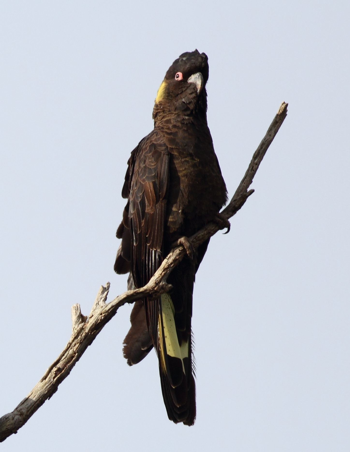 An adult male Yellow-tailed Black Cockatoo at Royal Botanic Gardens, Cranbourne, Melbourne, Australia.